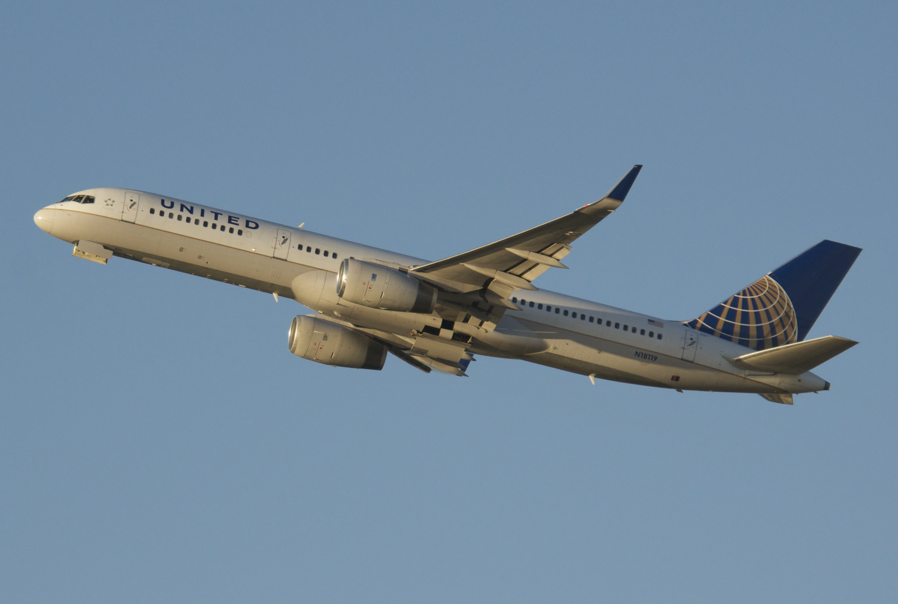 This Boeing 757-224 took its first flight on May 2, 1997...(c/n 27561/ 753) 12/05/1997 Continental Airlines N18119 20/12/2010 United Airlines N18119